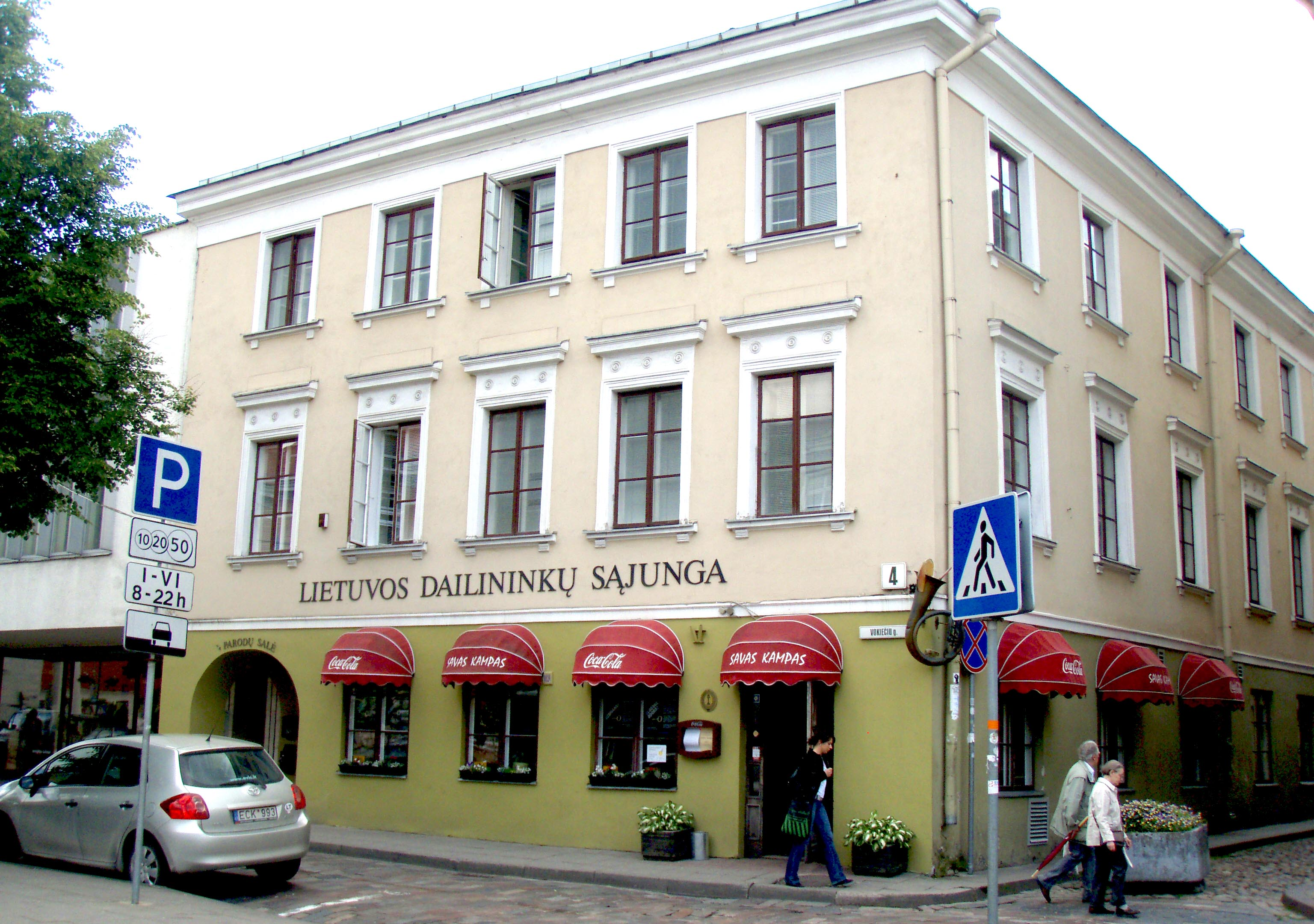 Lithuania's painter union